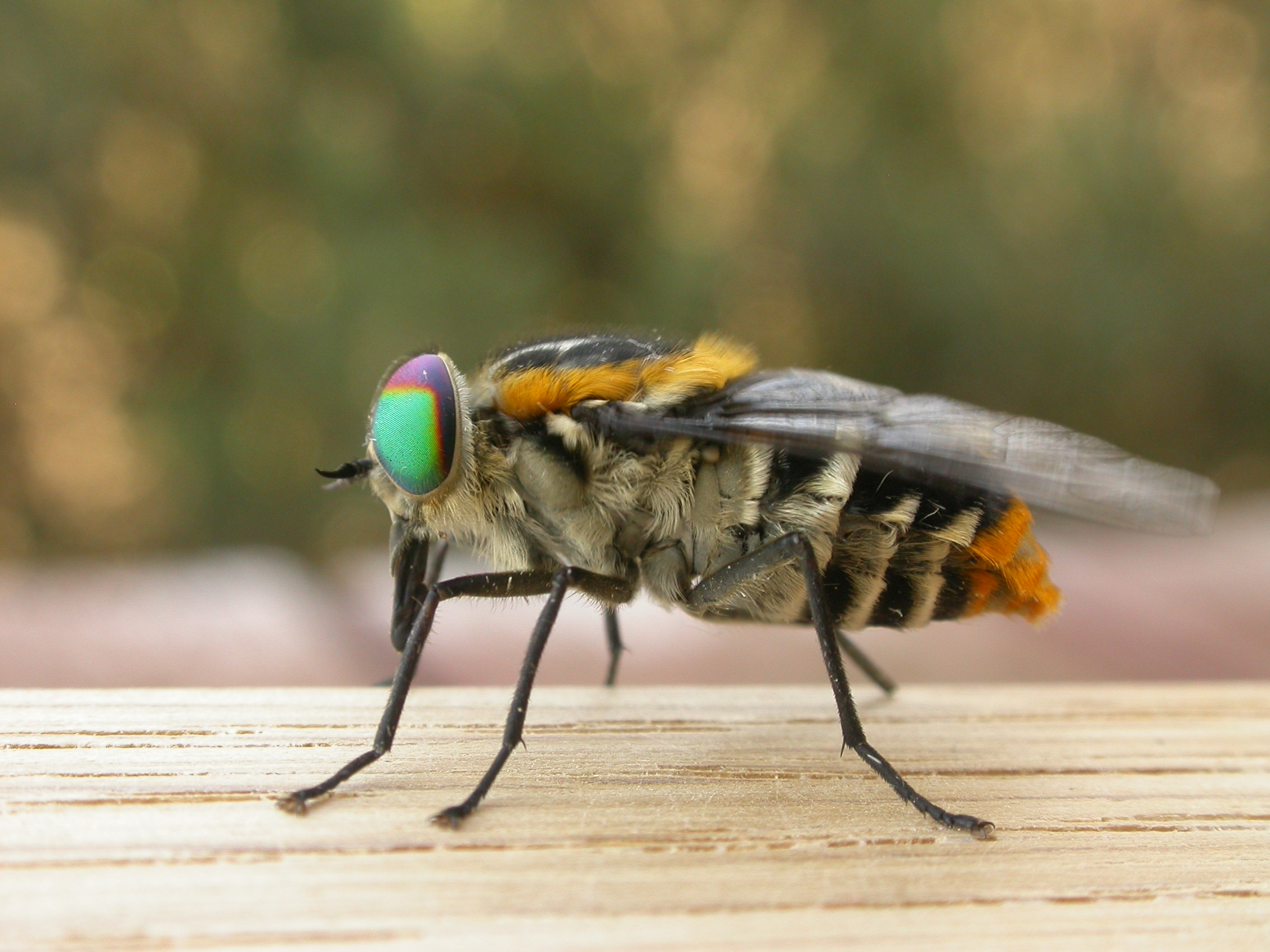 Scaptia auriflua (Donovan), female, to MV light, Aranda, ACT, 23/23 February 2009